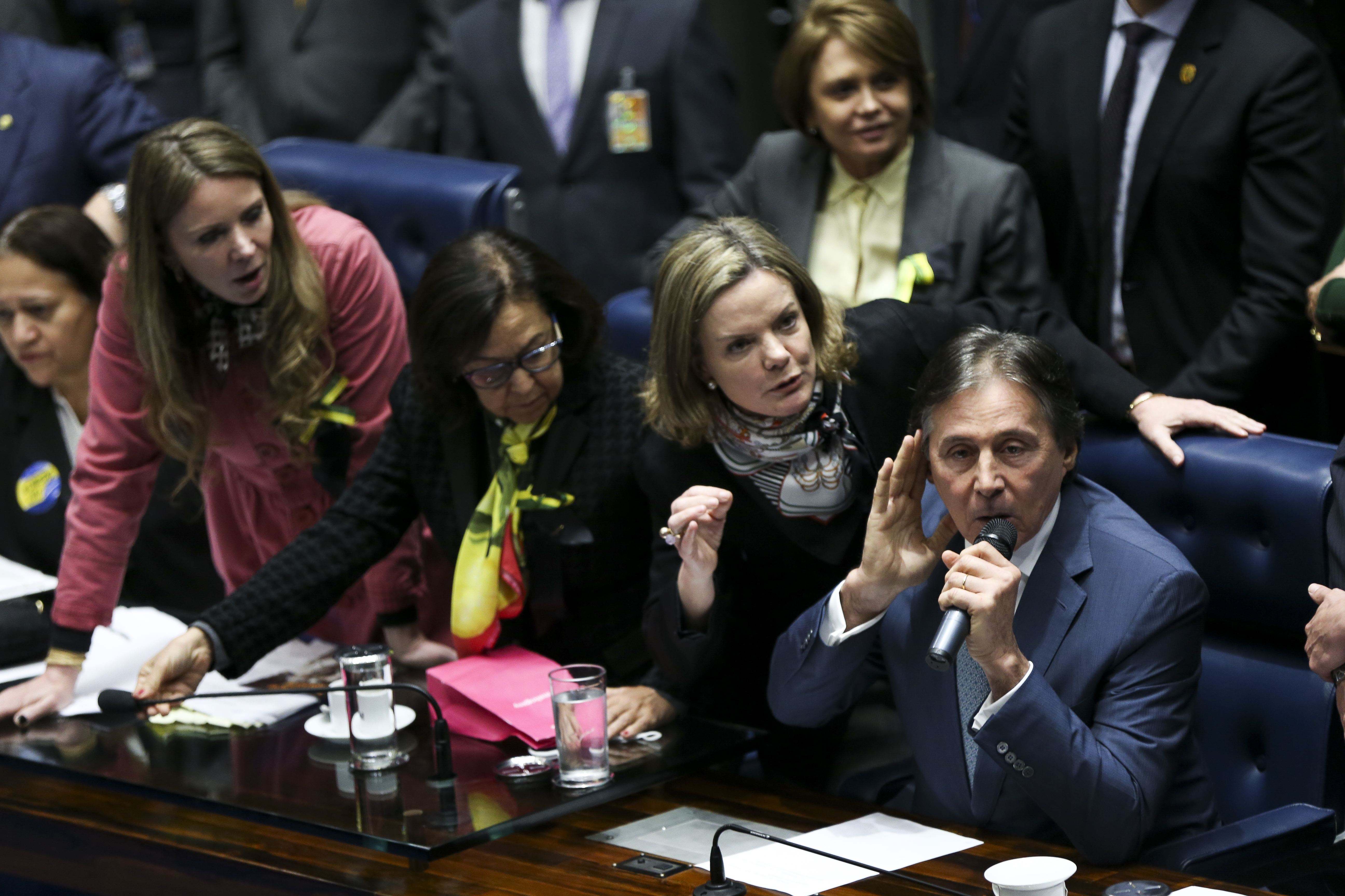 Brasília - Senadoras de oposição deixam a mesa e o presidente do Senado, Eunício Oliveira, retoma a sessão para votação da reforma trabalhista (Marcelo Camargo/Agência Brasil)